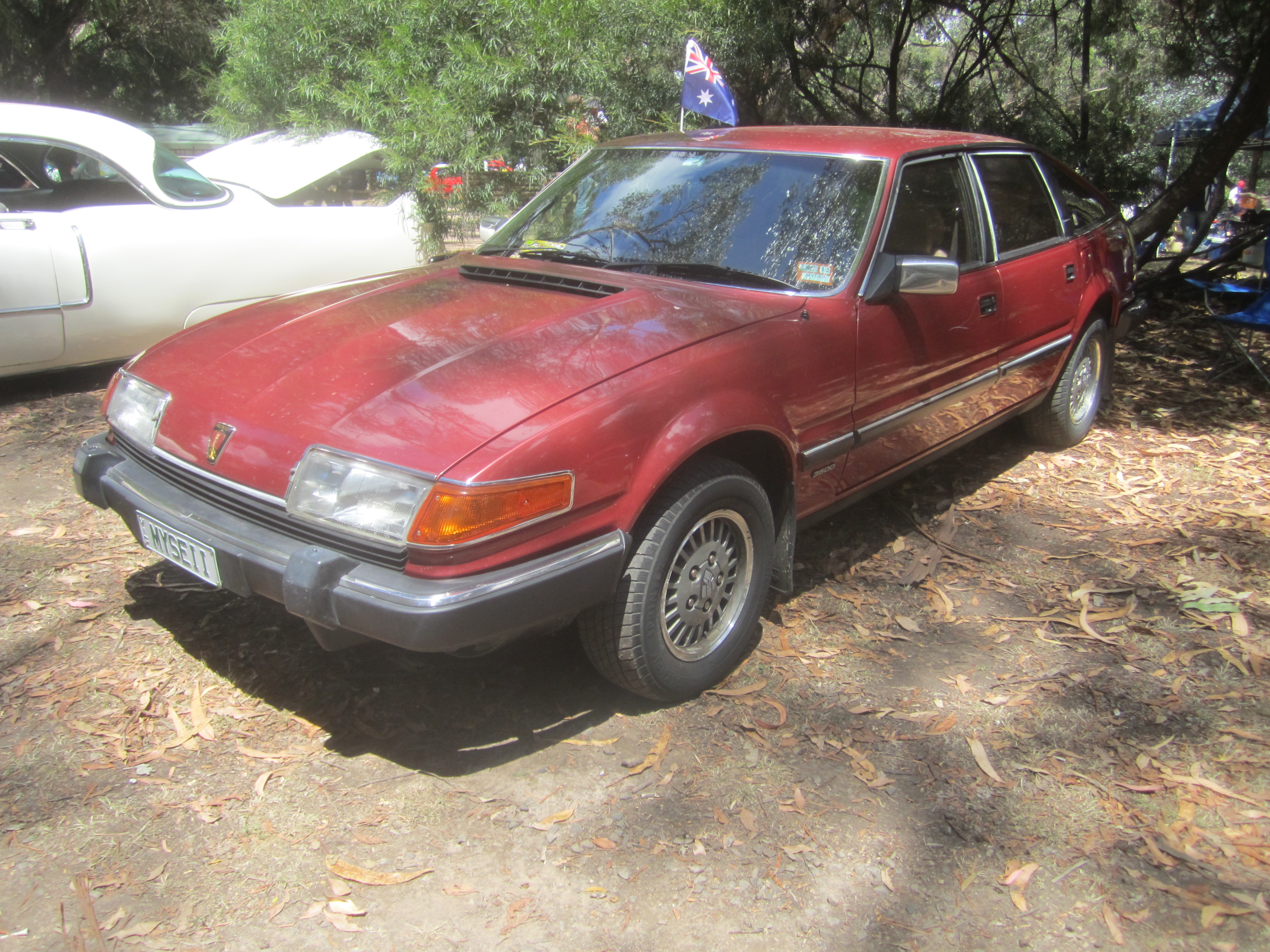 The SD1 (Specialist Division) was built by British Leyland from 1976-86 and only available as a 5 door liftback. A facelift in 1982 saw small cosmetic changes on the exterior as well as a quite extensively redesigned interior. The Series II headlights were chrome-rimmed and flush fitting, recessed on the earlier series, the deeper rear window now fitted with a rear wash wipe, and the new plastic wrap around bumpers which replaced the three piece rubber and stainless steel ones Models; Standard, S, SE and Vanden Plas. Engines; 2.0l 4 cyl, 2.3l 6 cyl or 3.5l V8